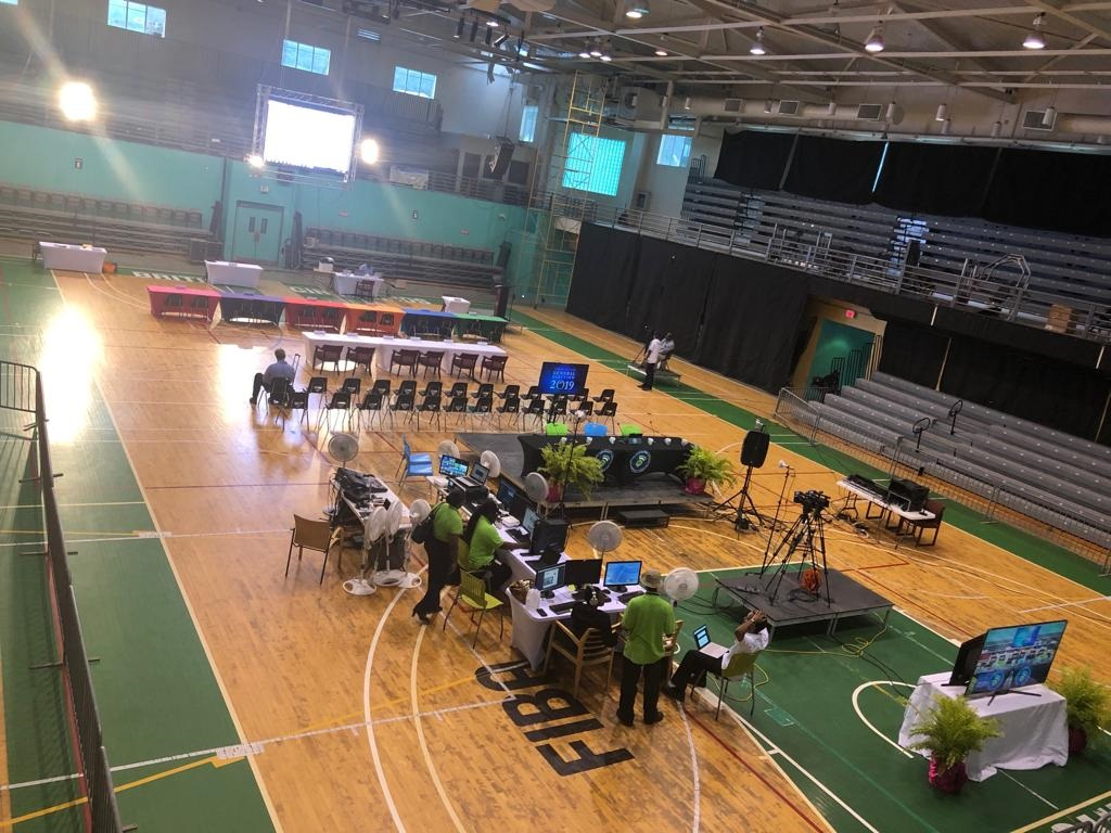 Photo of the hall prior to tallying the votes at the 2019 BVI general election.